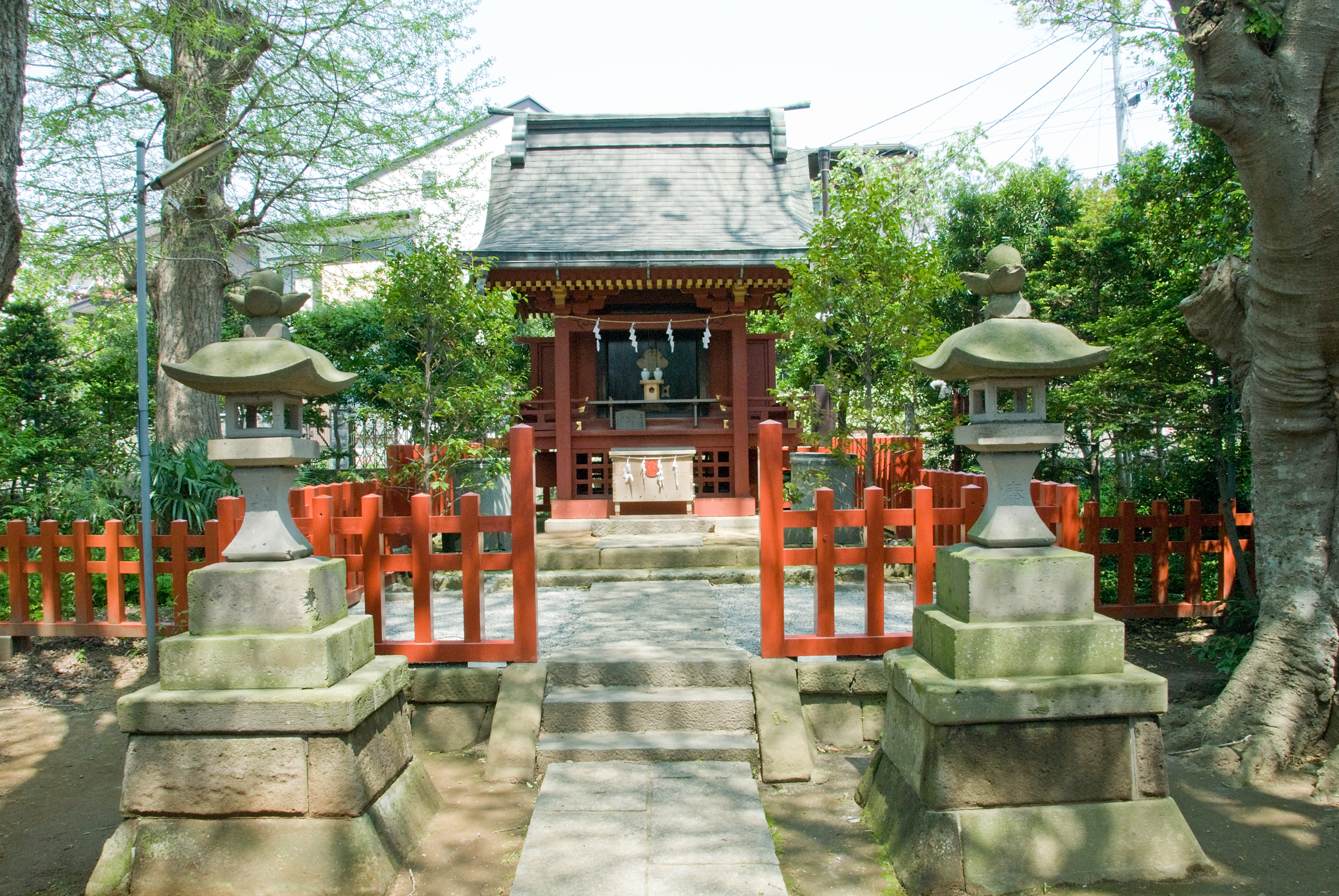 Main Hall of Moto Hachiman Shrine, Kamakura